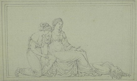 Drawing by Charles Pierre Joseph Normand of a relief by Anne Seymour Damer: Death of Cleopatra